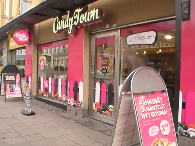 CandyTown Candy store in Turku, Finland. It has been found in March 2011 and It's owned by Video Filmtown Oy. At photographing moment CandyTown had totally 6 stores around Finland.